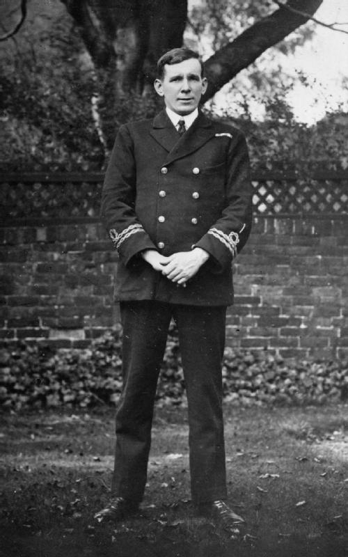 Photograph of Lieutenant Charles George Bonner VC, RNR.